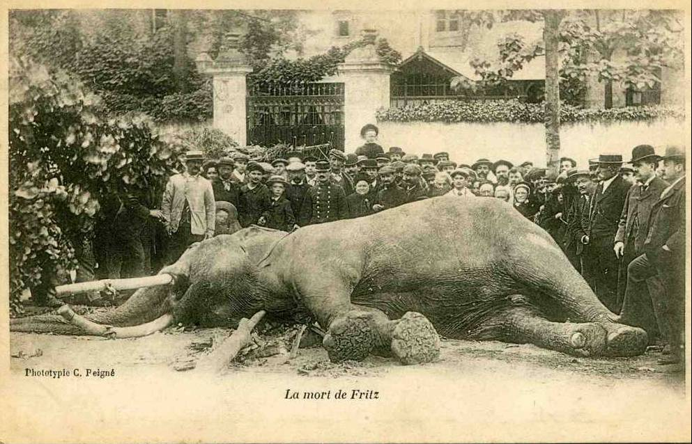 The Death of Fritz, an elephant of the Barnum & Bailey Circus, in place Nicolas-Frumeaud in Tours, France in 1902.